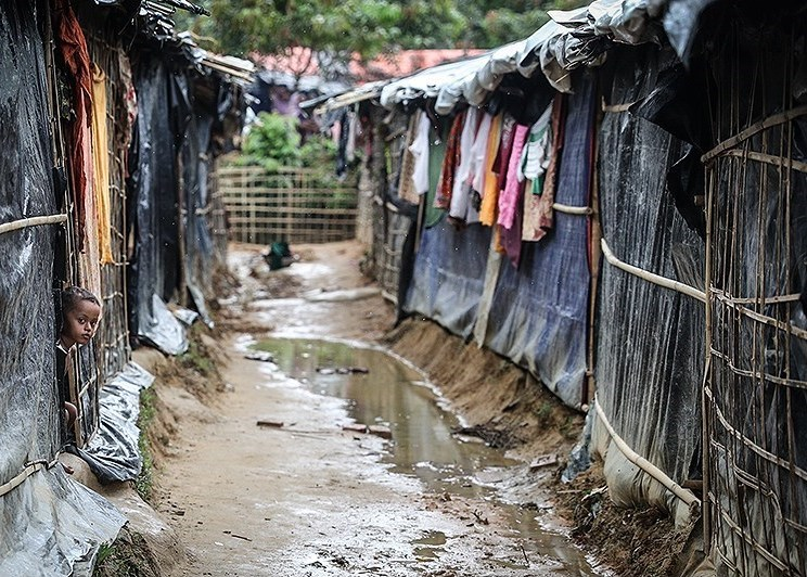 Rohingya displaced Muslims